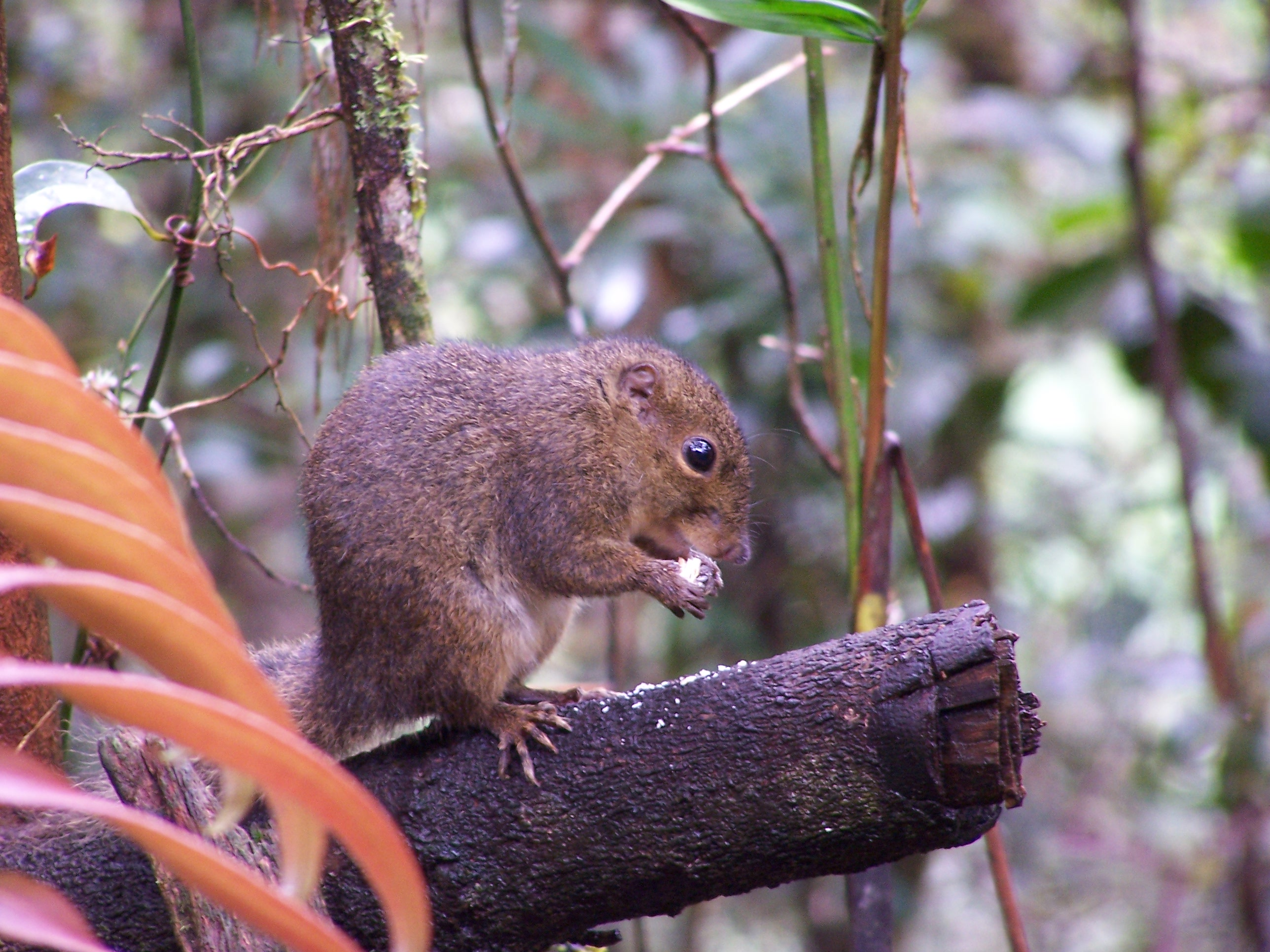 A mountain squirrel, probably Sundasciurus tenuis, found on Mount Kinabalu in Malaysian Borneo